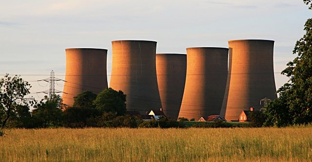 Cooling towers dwarf the houses at High Marnham